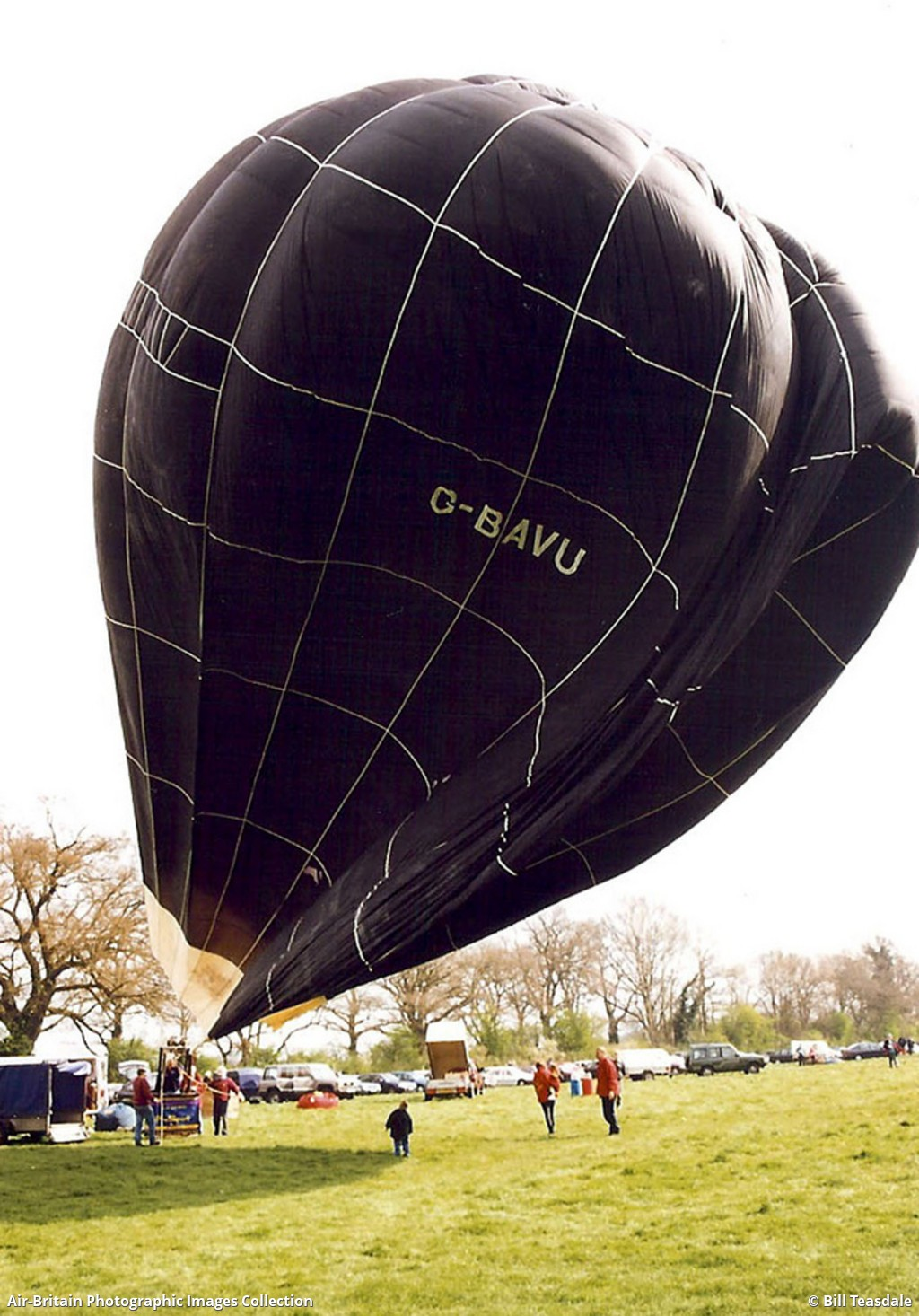 Registration: G-BAVU Construction Number: 66 Model Cameron O-105 Operator: British Balloon Museum & Library Airport: Hungerford - Town, UK - England Photographer: Bill Teasdale Date Taken: 17/04/1999 Views: 242 Built as the inside envelope of a solar balloon, and the first of its type to cross the English Channel 22 August 1981. C of A expired October 1984, and canx 6 December 2001. Seen struggling in windy conditions at a BBM&L Inflation Day